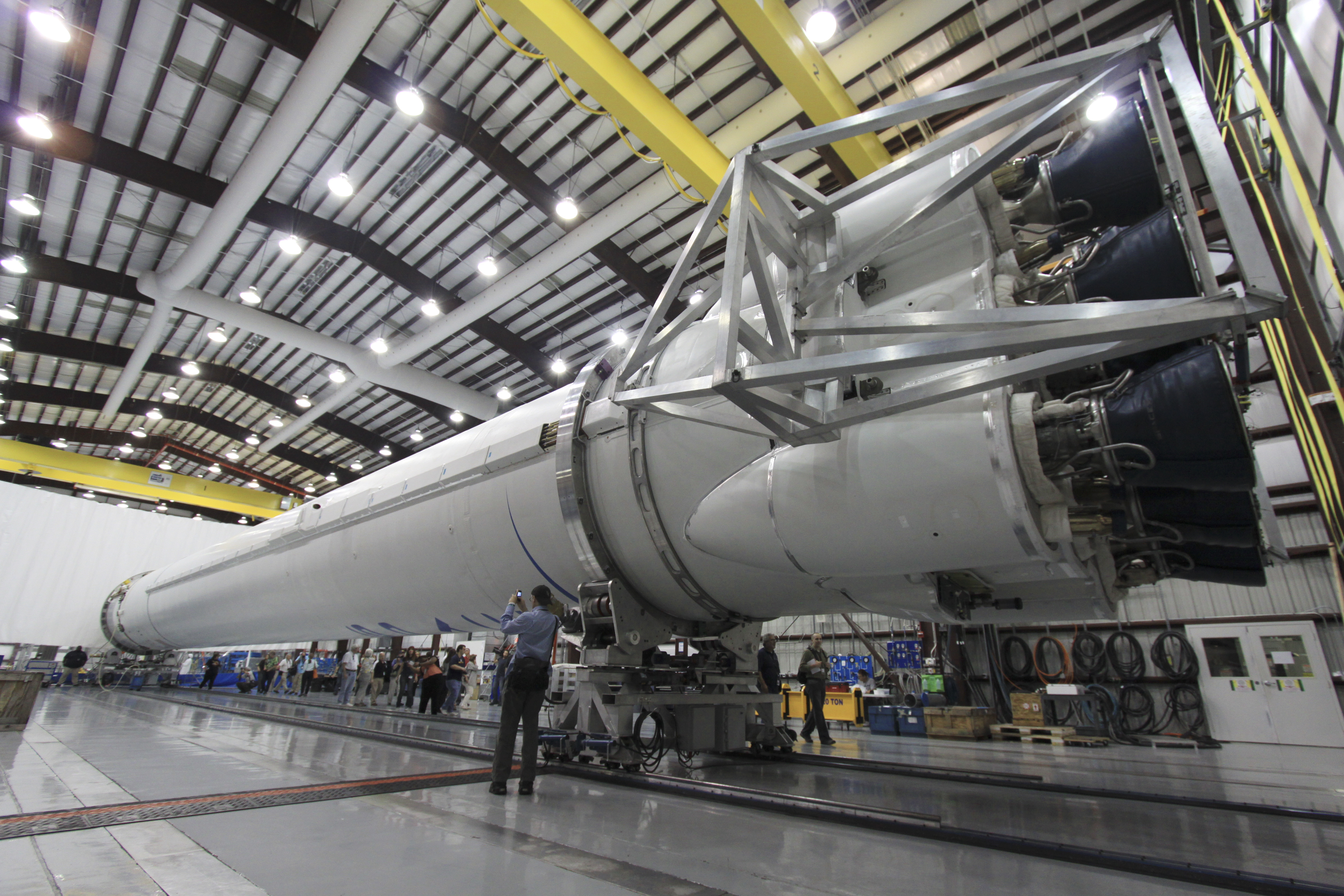 Media learn about the plans Space Exploration Technologies Corp. (SpaceX) has to take NASA astronauts to the International Space Station at Space Launch Complex-40 on Cape Canaveral Air Force Station. SpaceX is working to make its Falcon 9 rocket and Dragon capsule safe for humans for NASA's Commercial Crew Program (CCP) under the Commercial Crew Development Round 2 (CCDev2) activities. SpaceX already is developing these systems under NASA's Commercial Orbital Transportation System (COTS) Program to take supplies to the space station. Scott Henderson, director of SpaceX mission assurance, explained that the company is drafting designs to make the Dragon capsule crew-capable with life support systems while meeting CCP's safety requirements. One such option under discussion is a launch abort system that would push astronauts away from the launch pad in the event of an emergency, which is different than traditional pull systems. It's the freedom to develop innovative solutions such as this that CCP hopes will drive down the cost of space travel as well as open up space to more people than ever before. CCP, which is based at NASA's Kennedy Space Center in Florida, partnered with seven aerospace companies to mature launch vehicle and spacecraft designs under CCDev2, including Alliant Techsystems Inc. (ATK) of Promontory, Utah, Blue Origin of Kent, Wash., The Boeing Co., of Houston, Excalibur Almaz Inc. of Houston, Sierra Nevada Corp. of Louisville, Colo., Space Exploration Technologies (SpaceX) of Hawthorne, Calif., and United Launch Alliance (ULA) of Centennial, Colo.